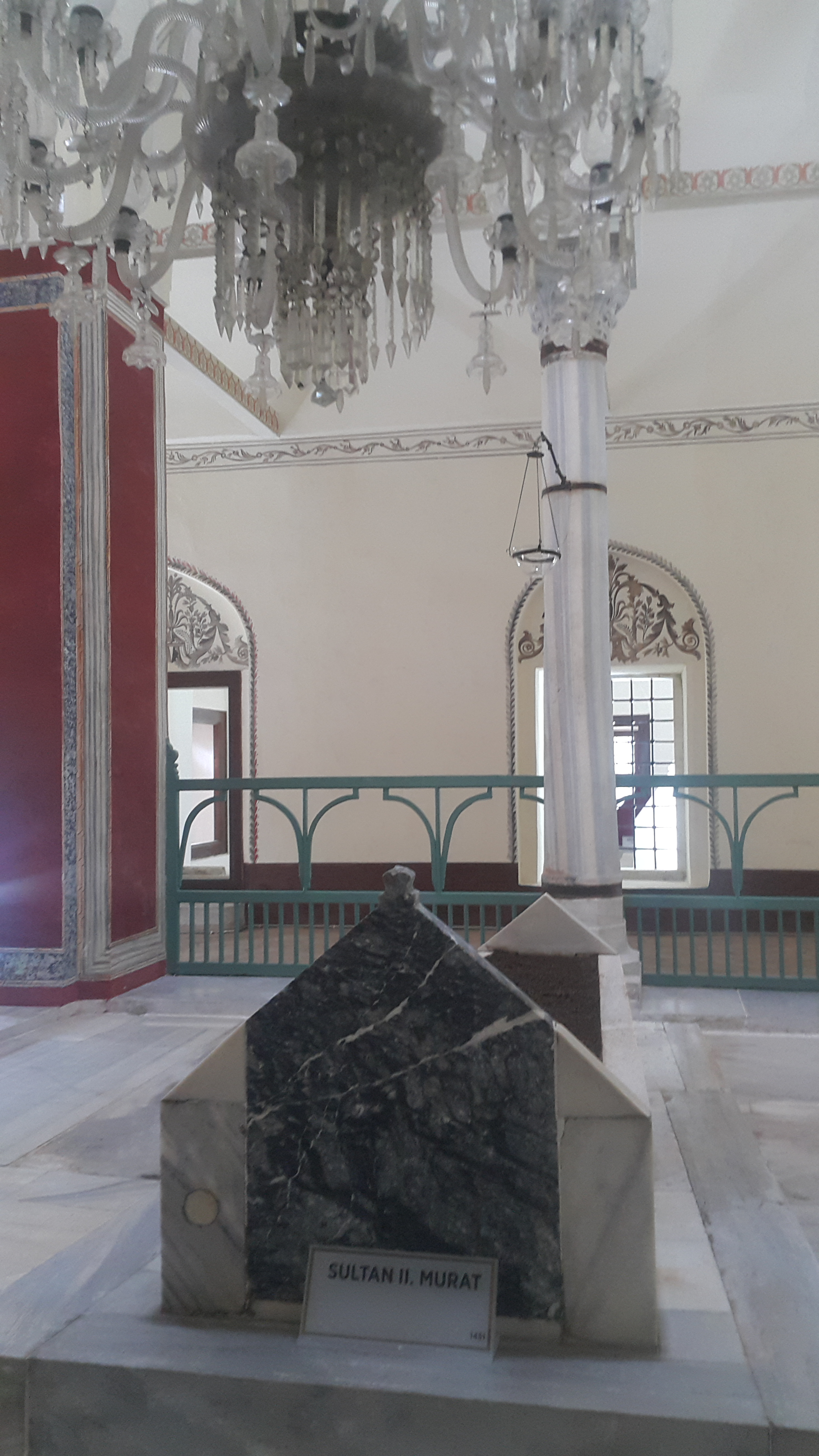 Tomb of Murat II, Bursa, Turkey, 2015